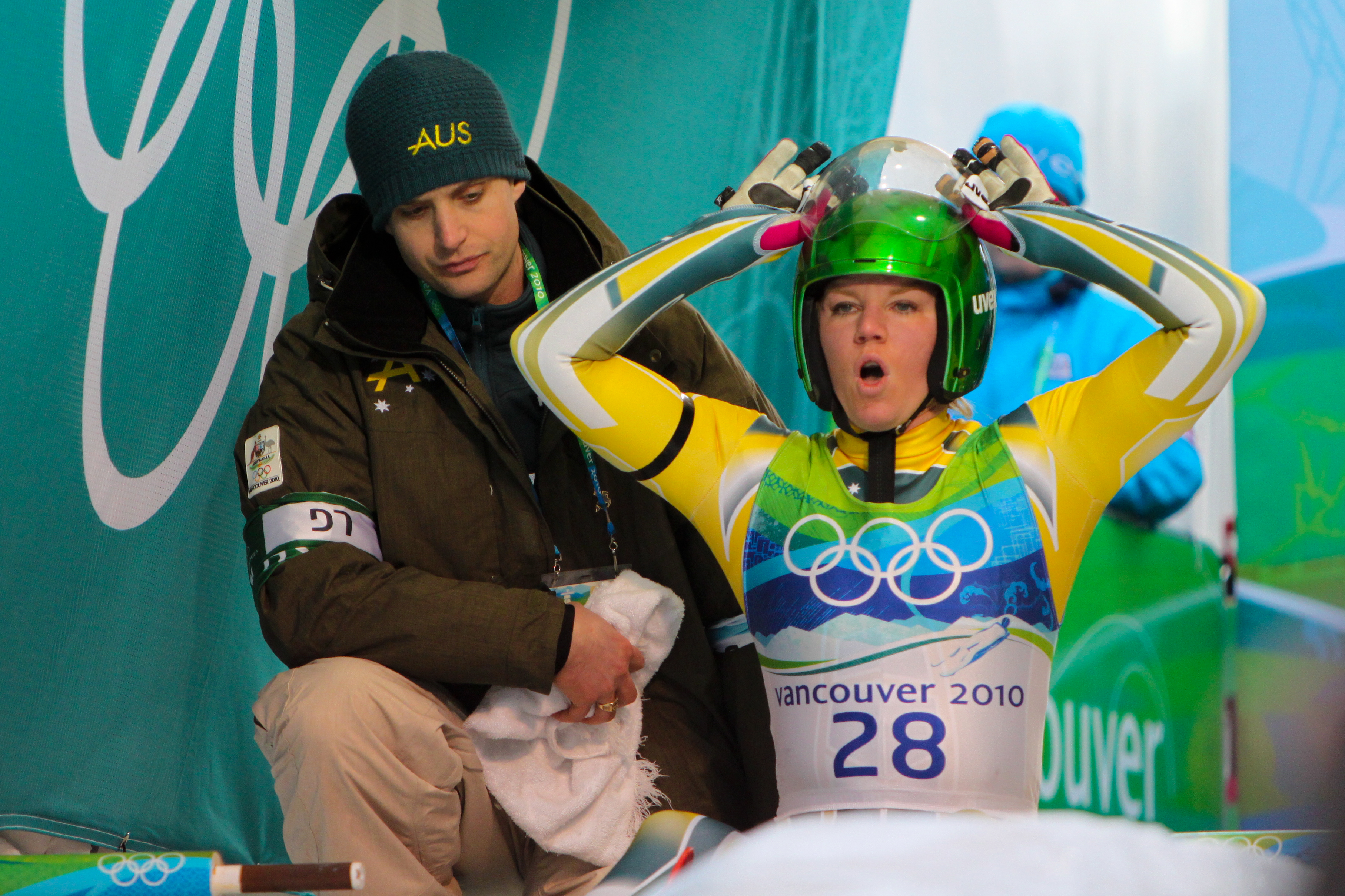 Hannah Campbell-Pegg getting ready for a run at the 2010 Winter Olympics in Vancouver